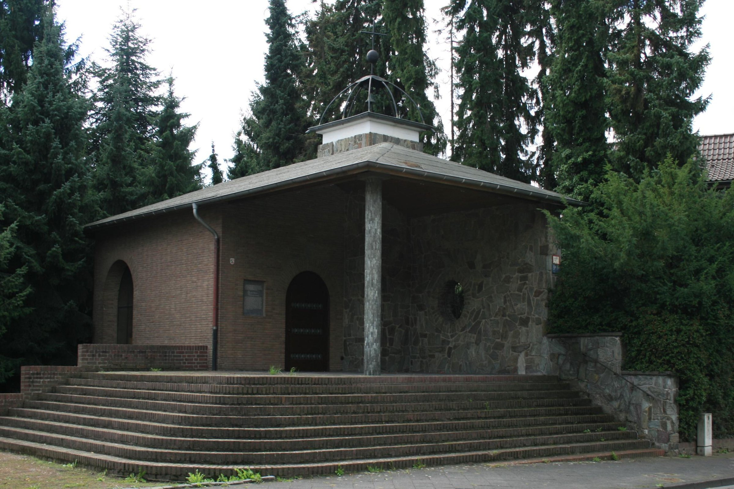 Cultural heritage monument No. W 040 in Mönchengladbach